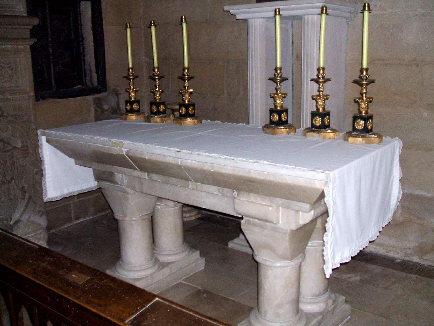 Altar auxiliar en la iglesia de Santa María de Miranda de Ebro (Burgos, España)